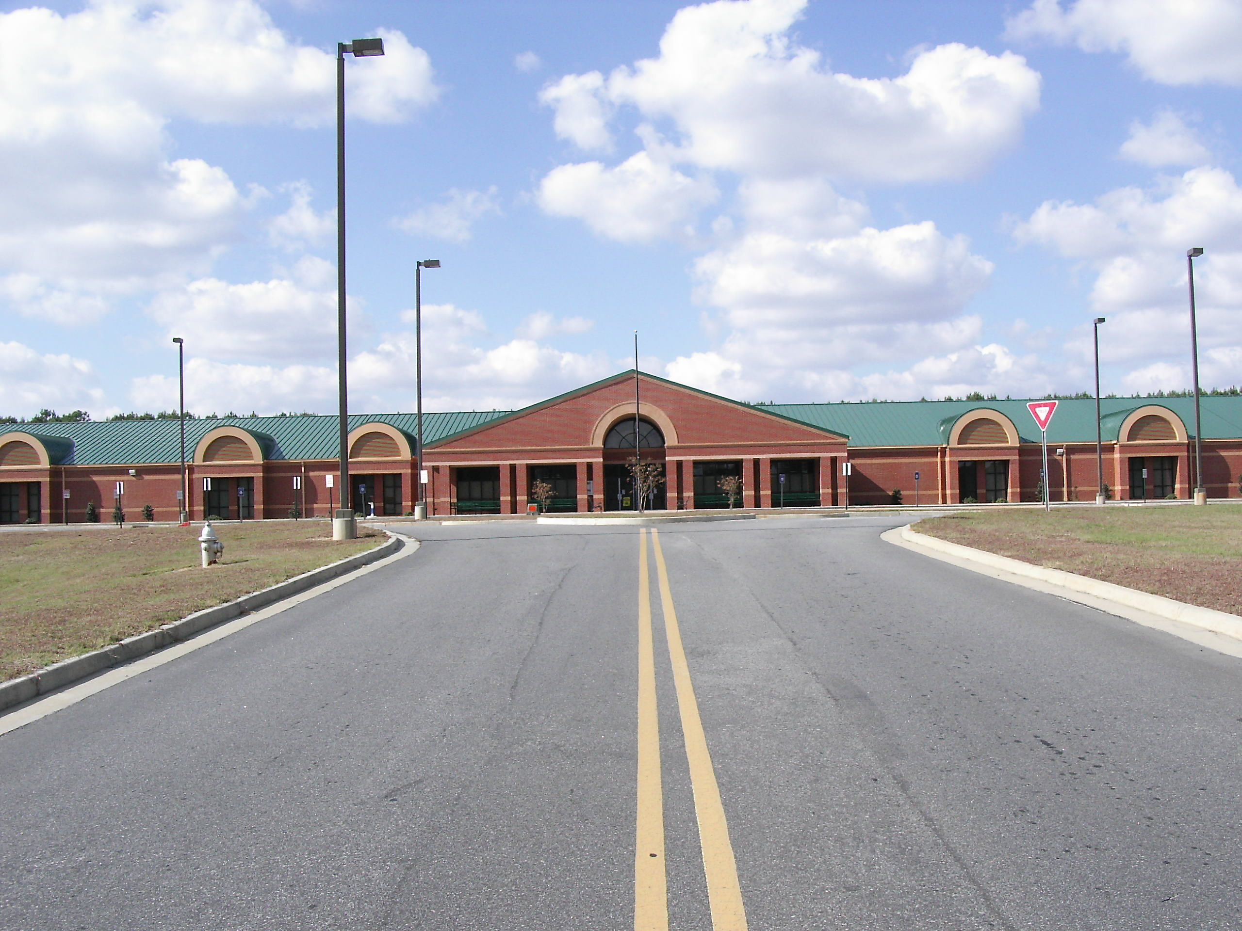 Annie Belle Clark School 1464 Carpenter Rd, Tifton, GA 31793 - K-3 Primary School